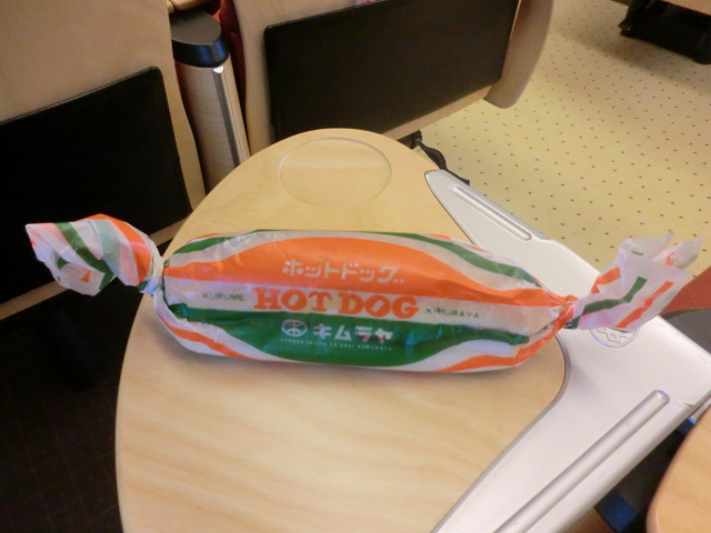 Hot Dog of Kurume city（Fukuoka Prefecture,Japan）.